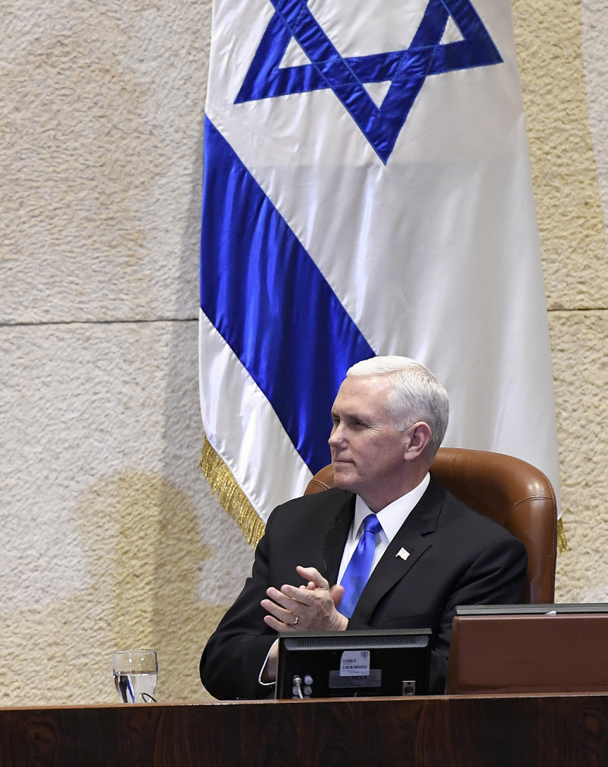 Vice President of the United States Mike Pence visits the Knesset and delivers remarks in front of a special parliamentary session, Jerusalem January 22, 2018. Vice President of the United States Mike Pence visits the Knesset and delivers remarks in front of a special parliamentary session, Jerusalem January 22, 2018.